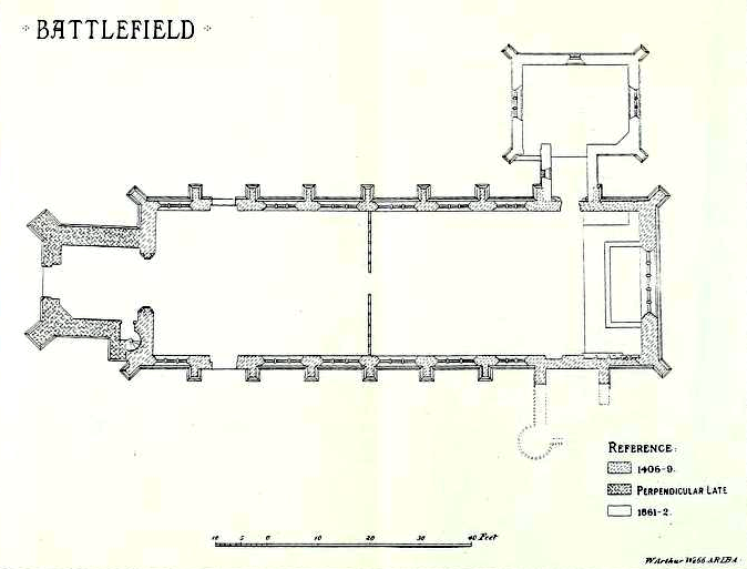 Plan of Battlefield Church by W. Arthur, c. 1862